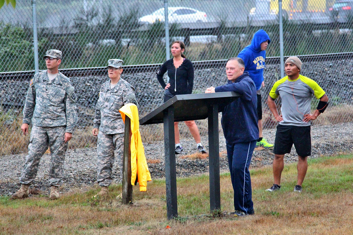 Army Maj. Gen. Bret D. Daugherty, foreground, adjutant general for the Washington National Guard, Army Staff Sgt. Adam Zangenberg, left, Army Sgt. 1st Class Melinda Heikkinen, center left, and Army Sgt. 1st Class Ron Cardenas, right, watch participants in a suicide prevention awareness run on Camp Murray, Wash., Sept. 26, 2014. Zangenberg, a suicide prevention program manager, Heikkinen, a sexual assault coordinator, and Cardenas are assigned to the Washington National Guard. Washington Army National Guard photo by Gary Lott